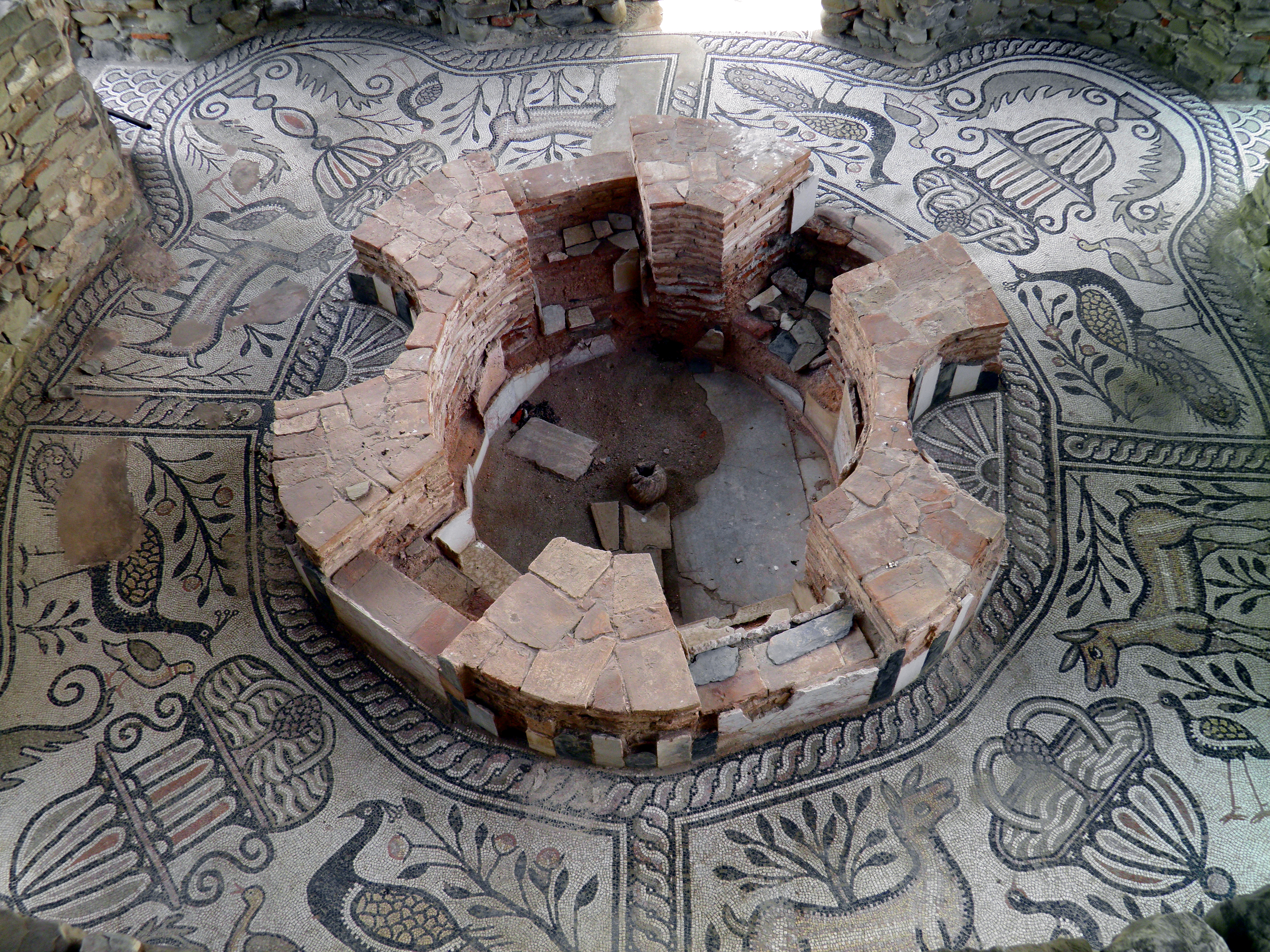 Stobi, Macedonia